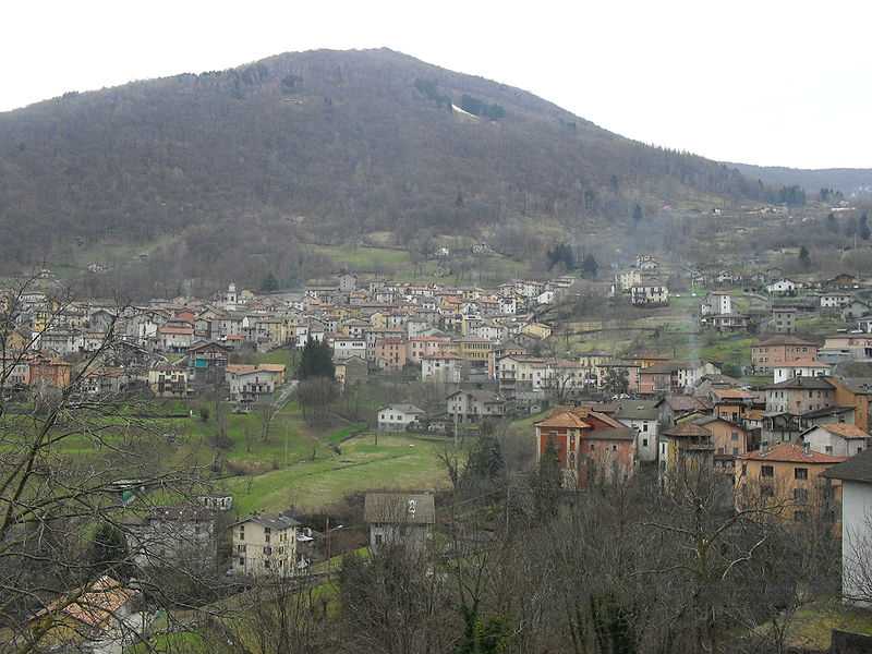 Village of the north of Italy